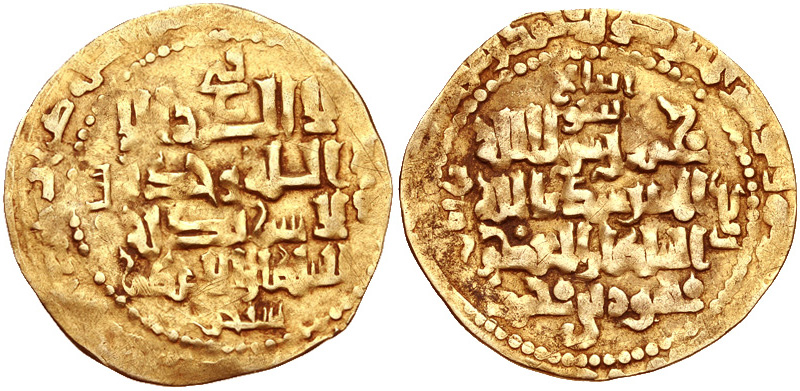 ISLAMIC, Seljuks. Western Iran. Mughith al-Din Mahmud II. AH 511-525 / AD 1118-1131. AV Dinar (22mm, 1.48 g, 8h). Citing Inanj Yabghu Zangi, governor. [Rudhravar mint]. [Dated AH 519 (AD 1125/6)]. cf. Lowick, Seljuq 15 (for type); Hennequin –; Album 1688. VF, toned, clipped. Extremely rare.